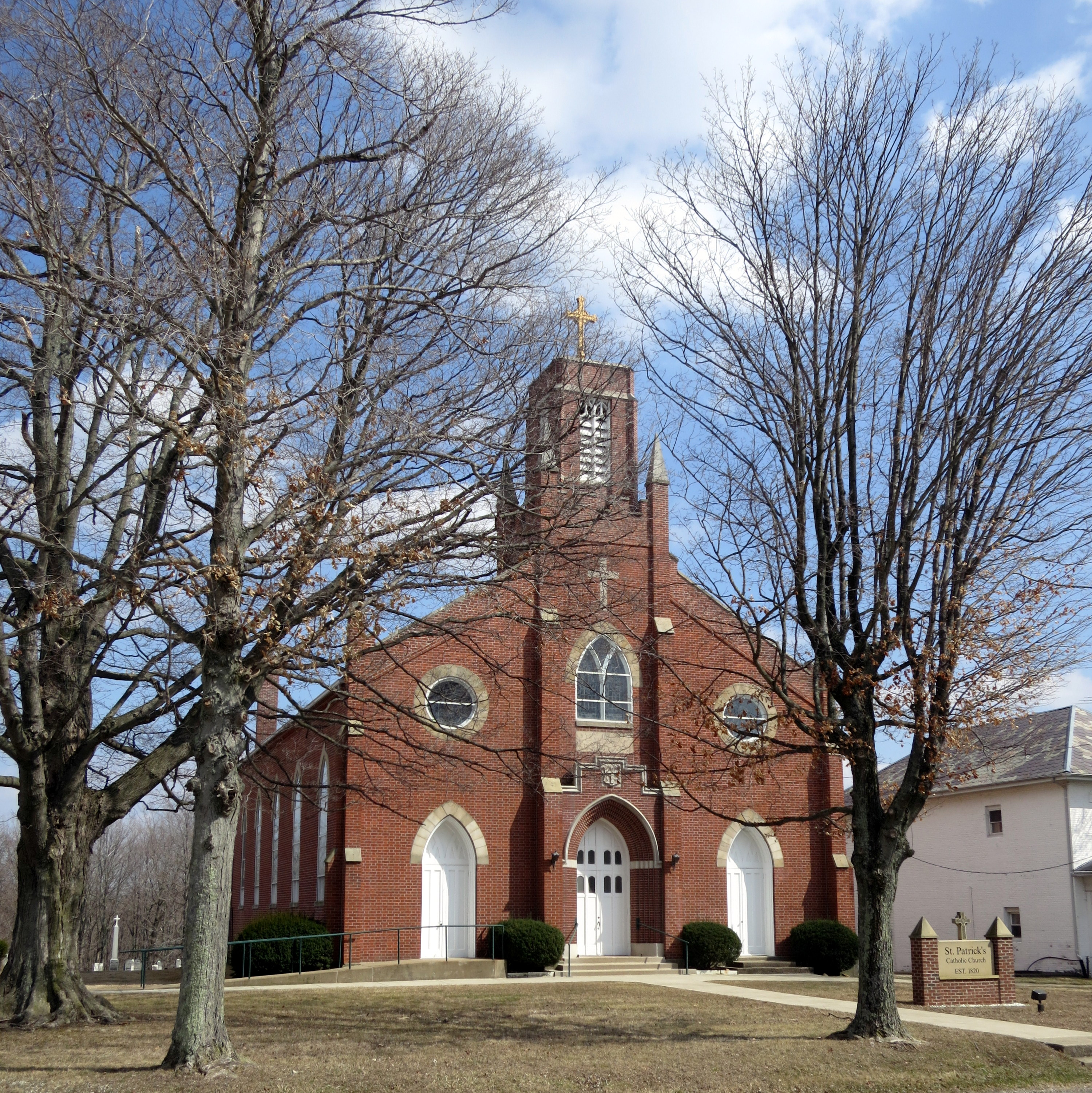 Saint Patrick Catholic Church (Junction City, Ohio) - exterior 2